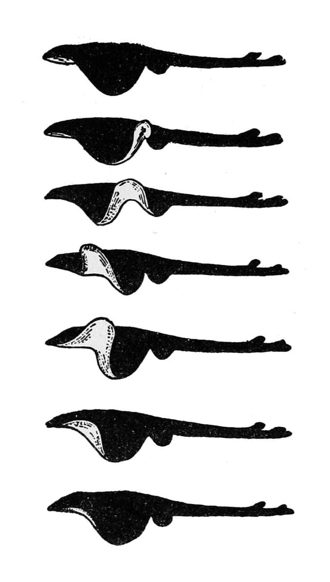 Rajidae